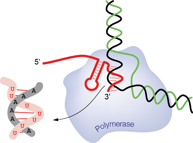 Rho-independent transcription terminator in prokaryotes. mRNA (red) transcription by RNA polymerase (blue) terminates at the level of a hairpin structure followed by a run of uridines.